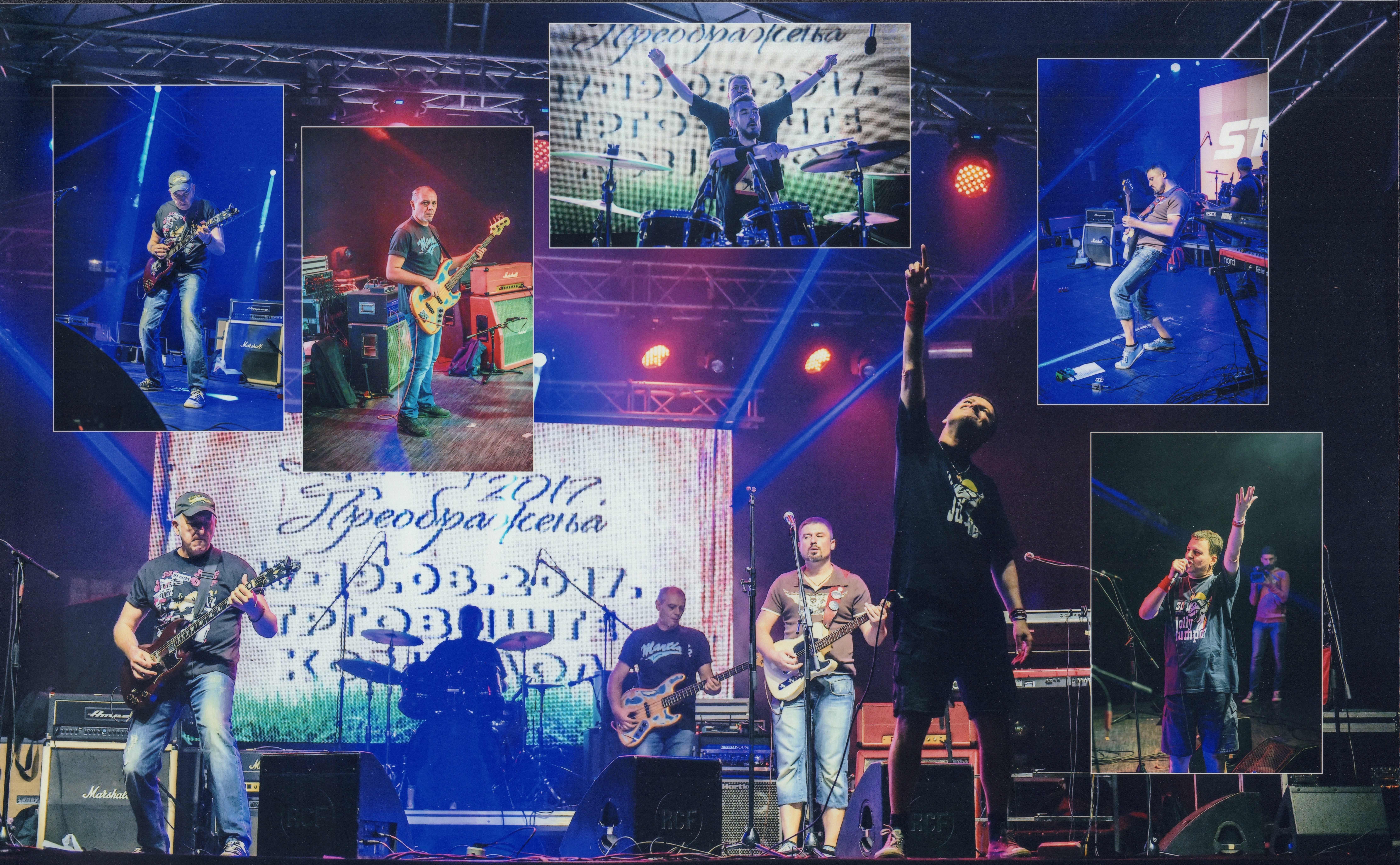 Jolly Jumper 2017. kolaz